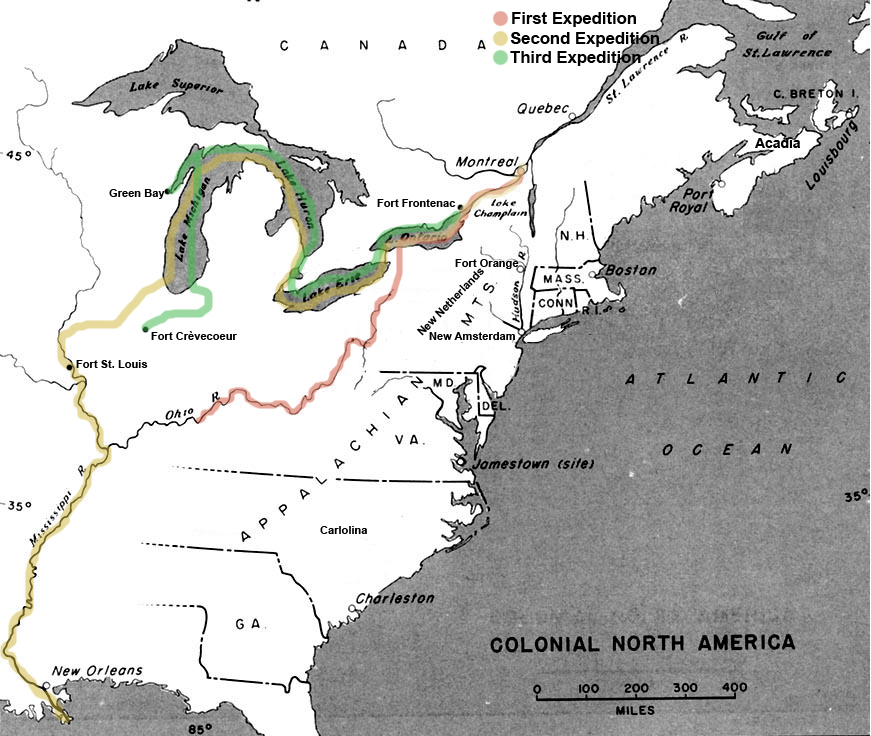 a map showing the route believed to be of the expeditions of La Salle. Because of the ambiguity of the region at the time, the exact course of some parts of his travels are unknown